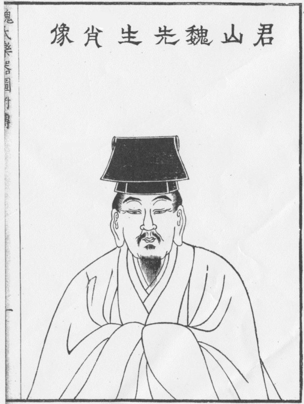 A portrait of Gi Kunzan